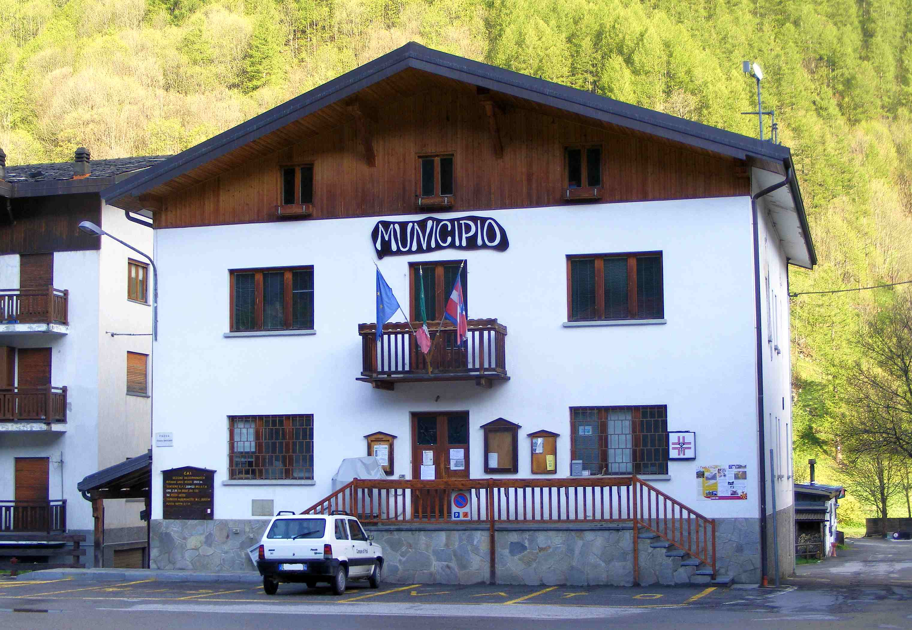 Prali (TO, Italy): town hall